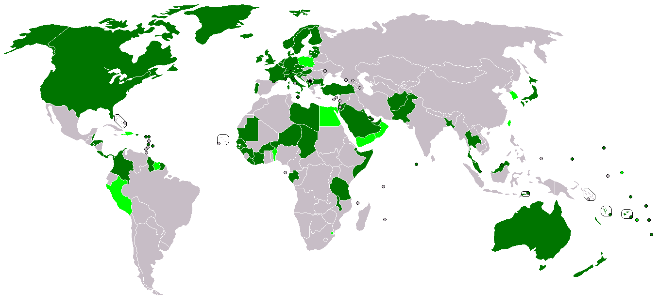 Kosovo Diplomatic relations Diplomatic recognition